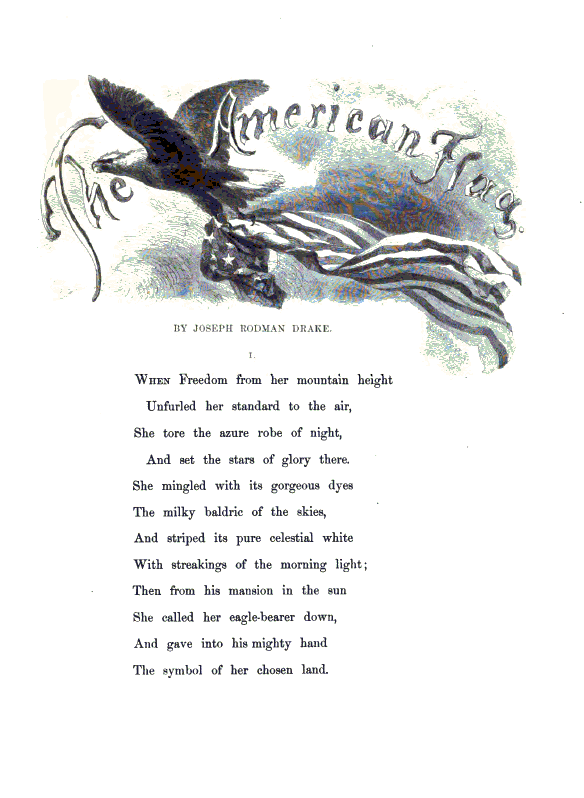 First Page of an 1861 edition of Joseph Rodman Drakes Poem The American Flag